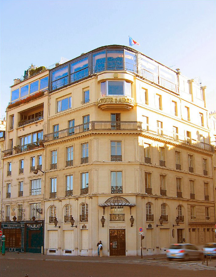 Author is me, davequ (David Queen) in 2005. Uploading from my data source.